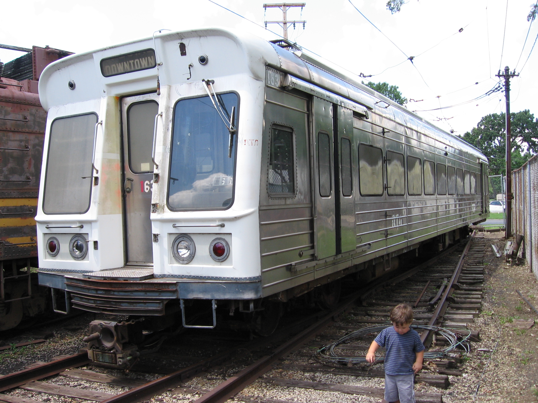 A former Cleveland Rapid Transit car at the Ohio Railway Museum in Worthington, Ohio